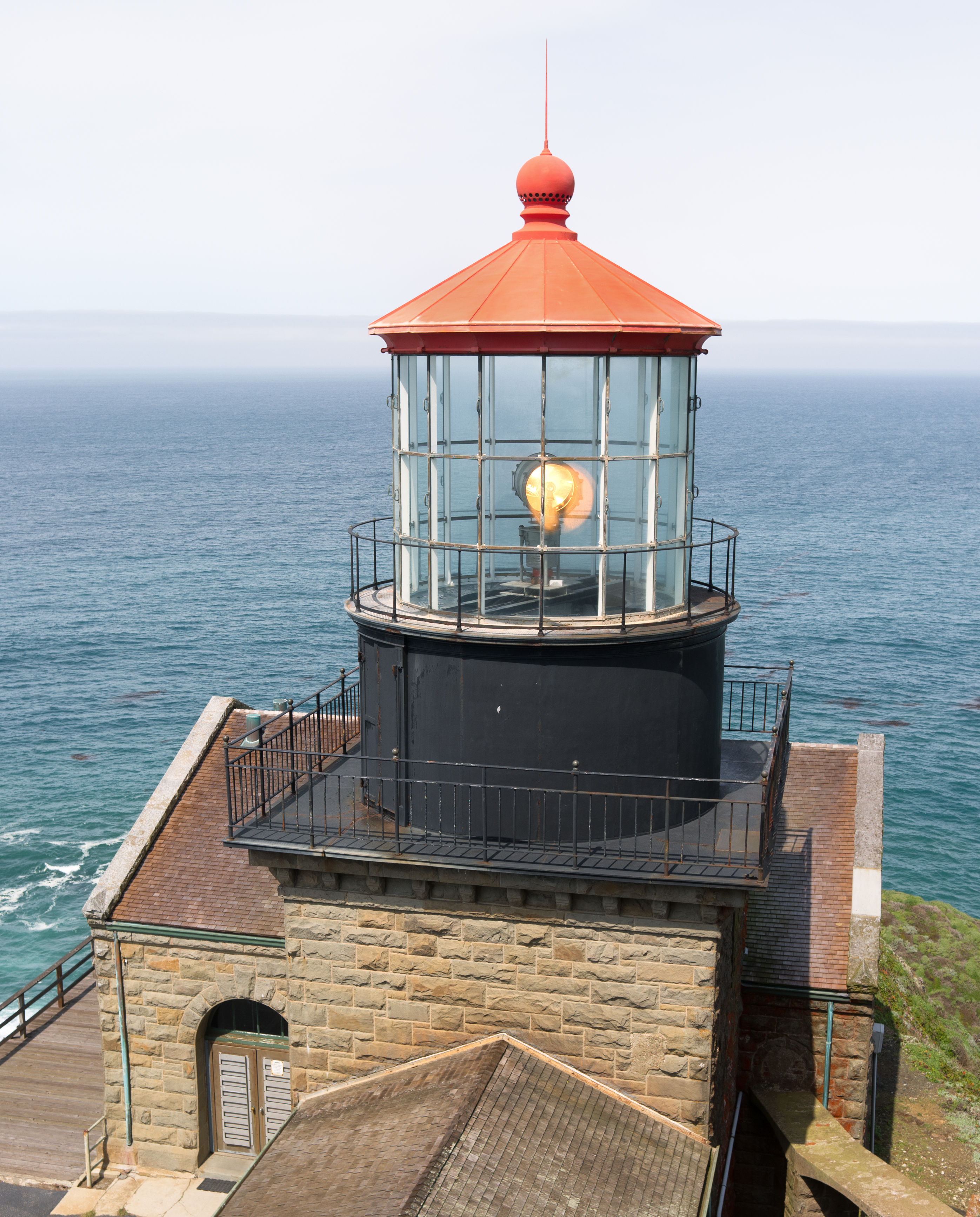 Point Sur Light Station, Monterey County, Big Sur, California.